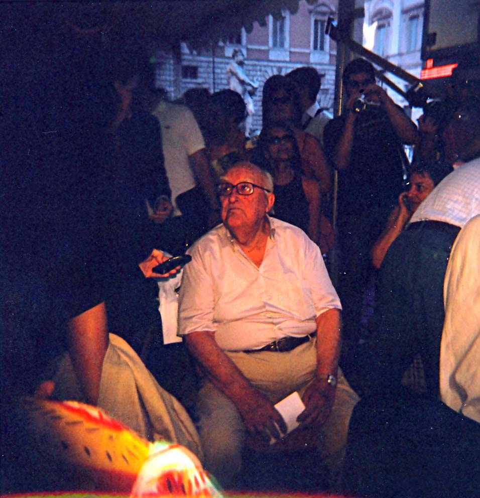 Andrea Camilleri at an anti-Silvio Berlusconi demonstration in Piazza Navona, Rome, on 18 July 2008